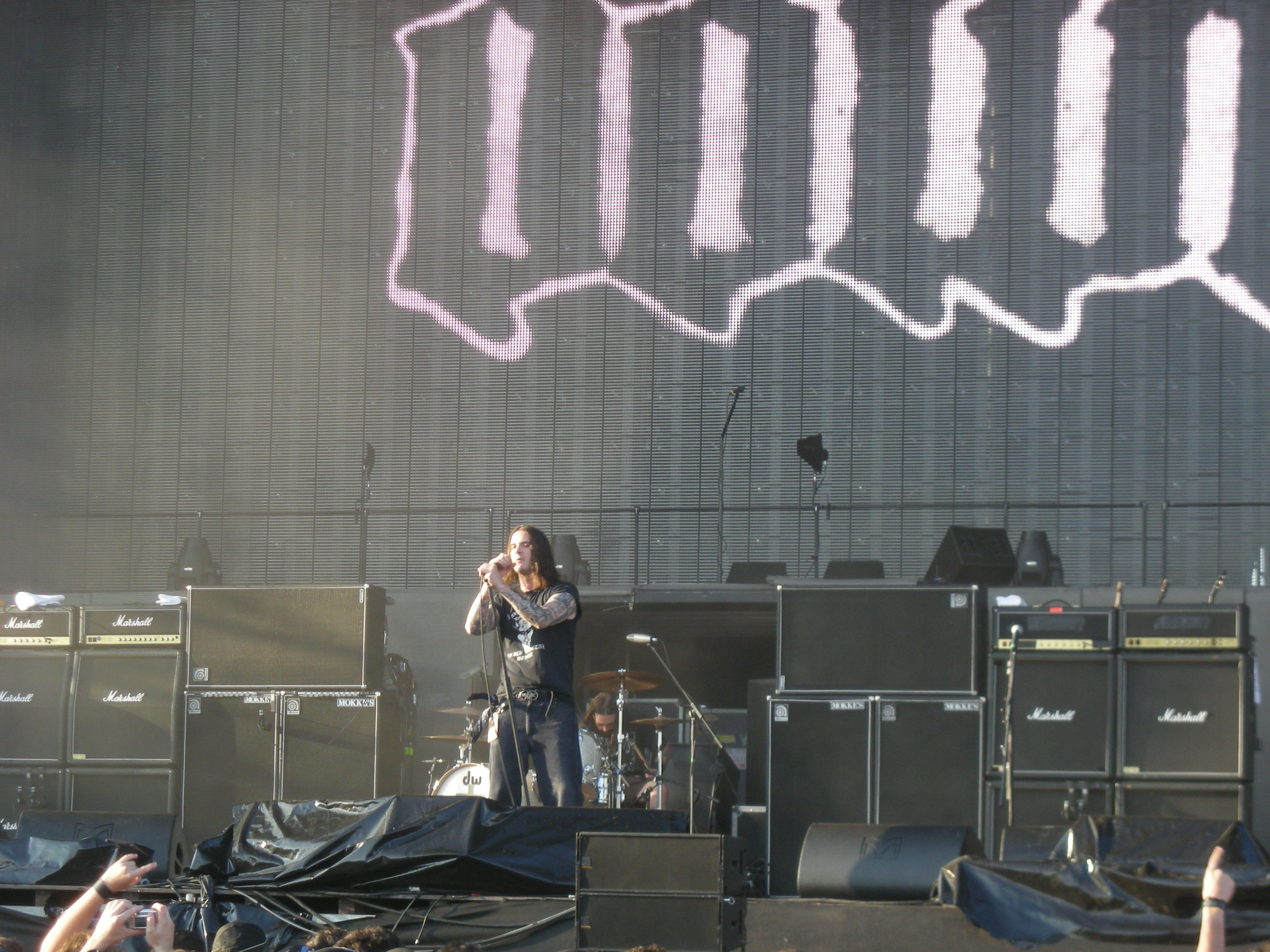 Down live in bologna